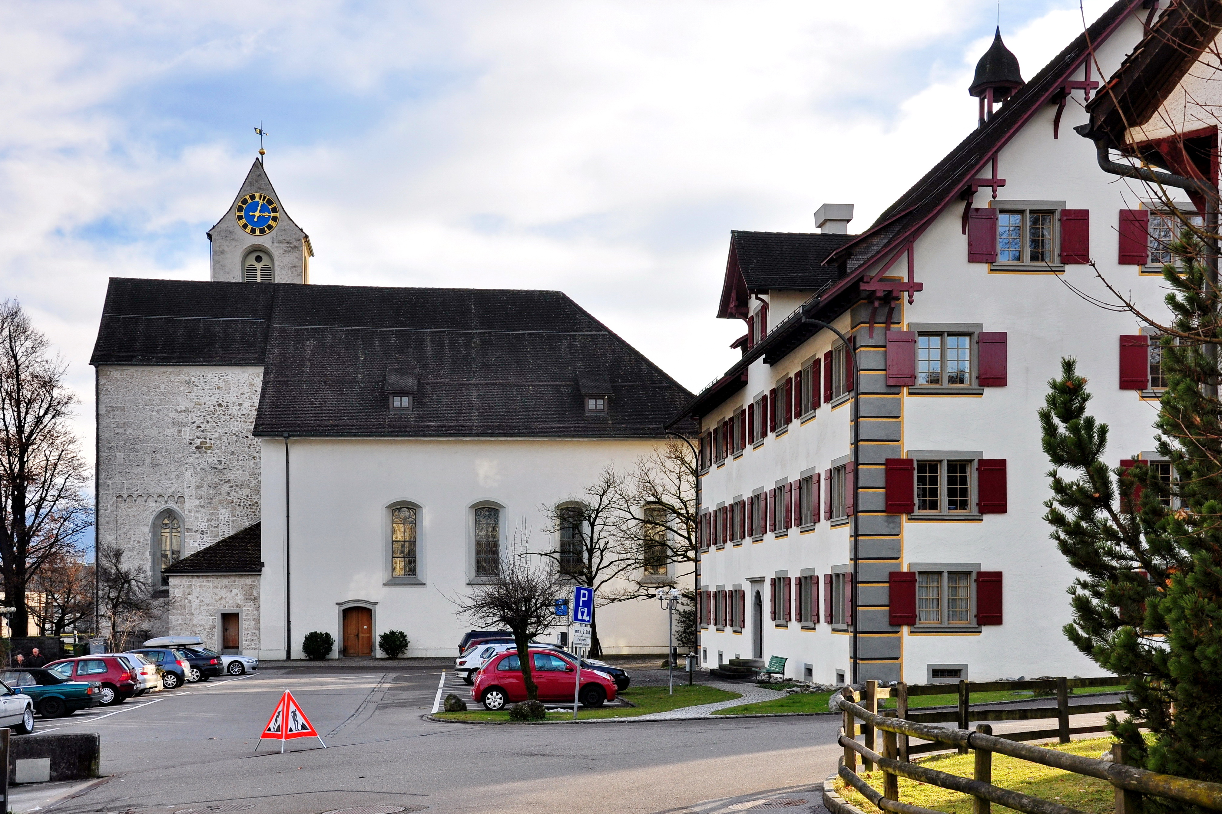 Klosterhof square respectively former Premonstratensian Abbey St. Mary in Rüti (Switzerland), as of today Reformed church, Amthaus to the right.